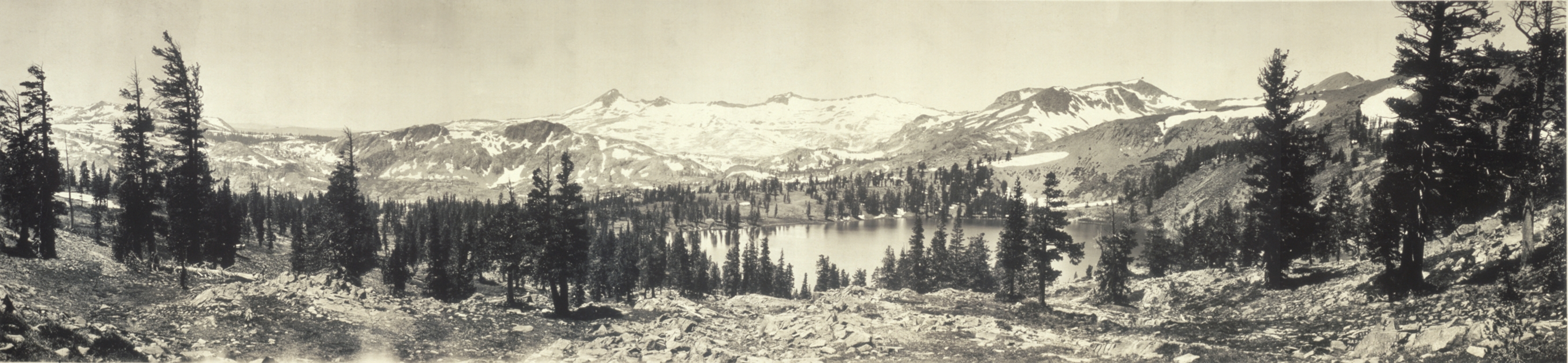 Panoramic photo of Gilmore Lake and Desolation Valley — of the Sierra Nevada in El Dorado County, California (circa 1910). In the present day Desolation Wilderness area of the Eldorado National Forest.